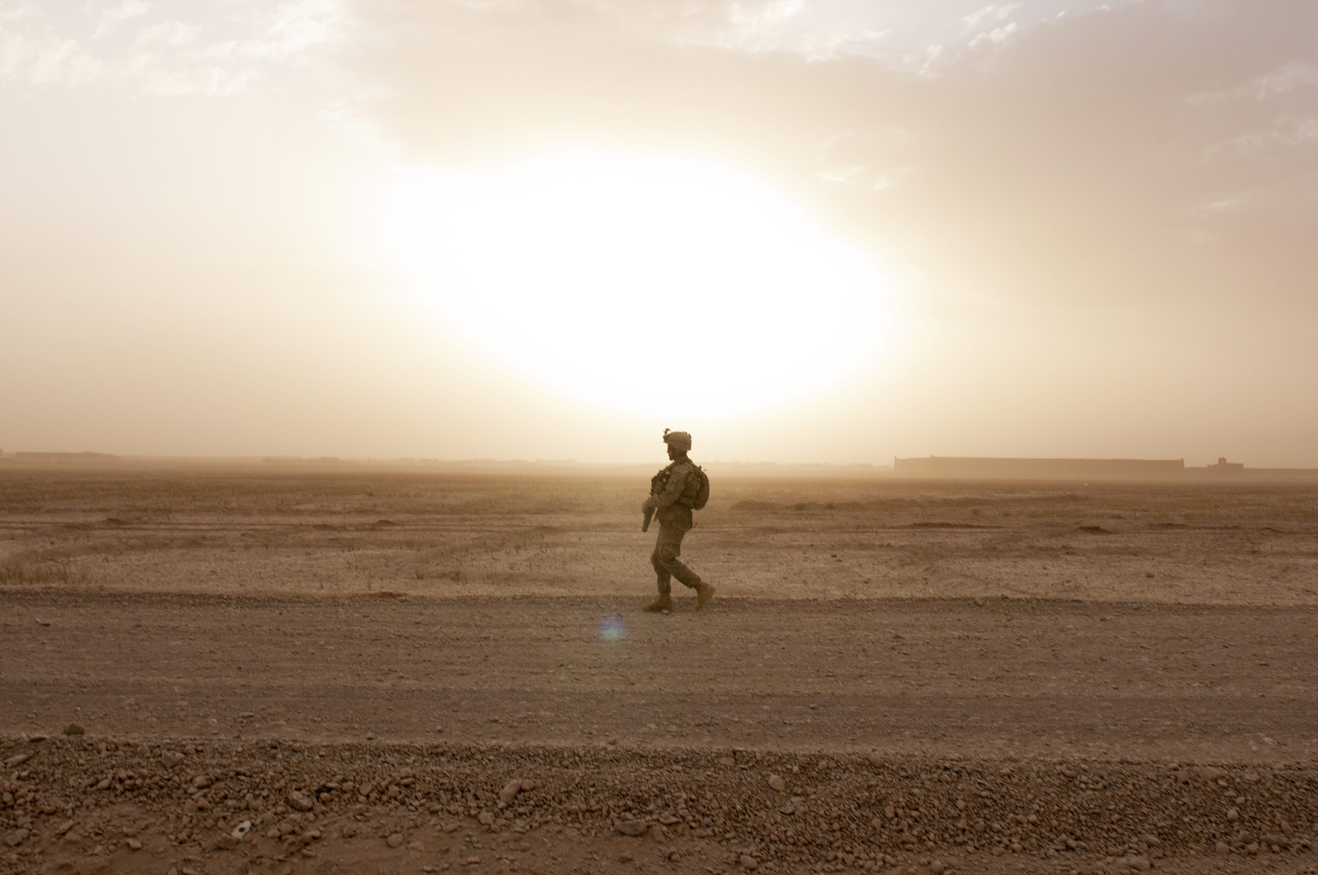 A Georgian soldier with Company A, 31st Georgian Light Infantry Battalion, scans for enemy activity while on patrol in Helmand province, Afghanistan. The Georgians' mission is to provide security for the local area and a main supply route. The soldiers have completed more than 100 patrols and ensure freedom of movement for both ISAF forces and the local population. 350th Public Affairs Detachment Photo by Sgt. 1st Class Jeff Duran Date Taken:04.16.2012 Location:A Read more